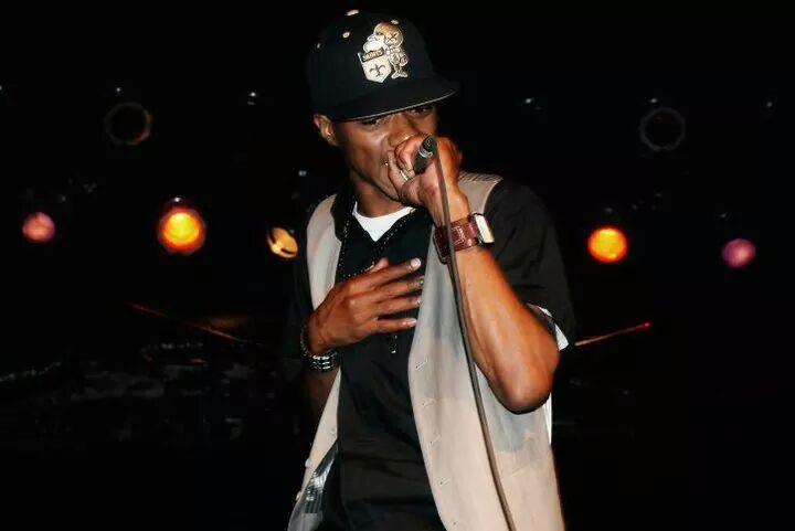 Depicted person: Mike Bleed Da BlockStarr – American entertainer, rapper, and actor